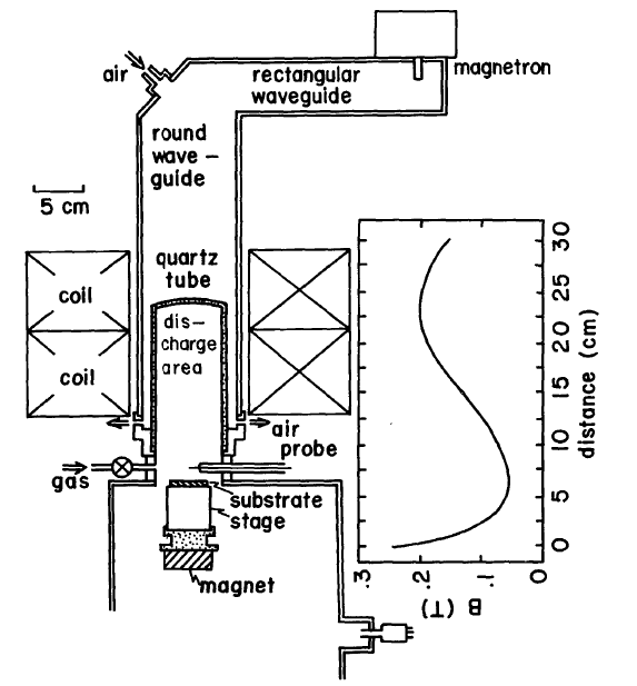 A diagram illustrating the mechanisms in microwave plasma etching